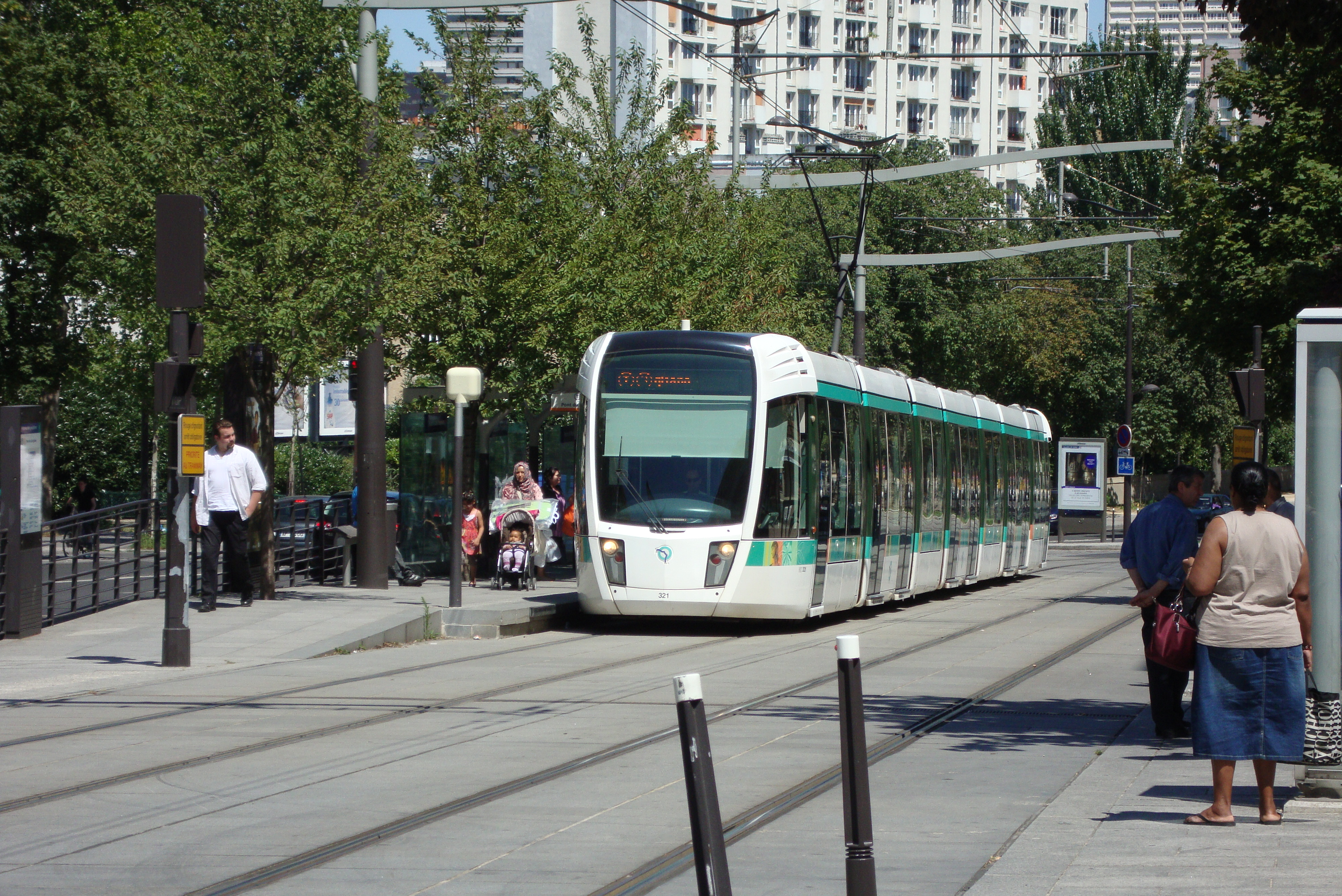 tram in Paris, line 3, between Cité Universitaire and Poterne des Peupliers